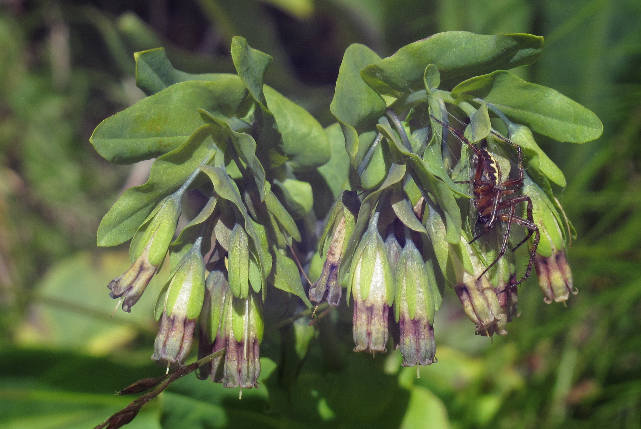 Cerinthe glabra, Upper Engadine, Switzerland